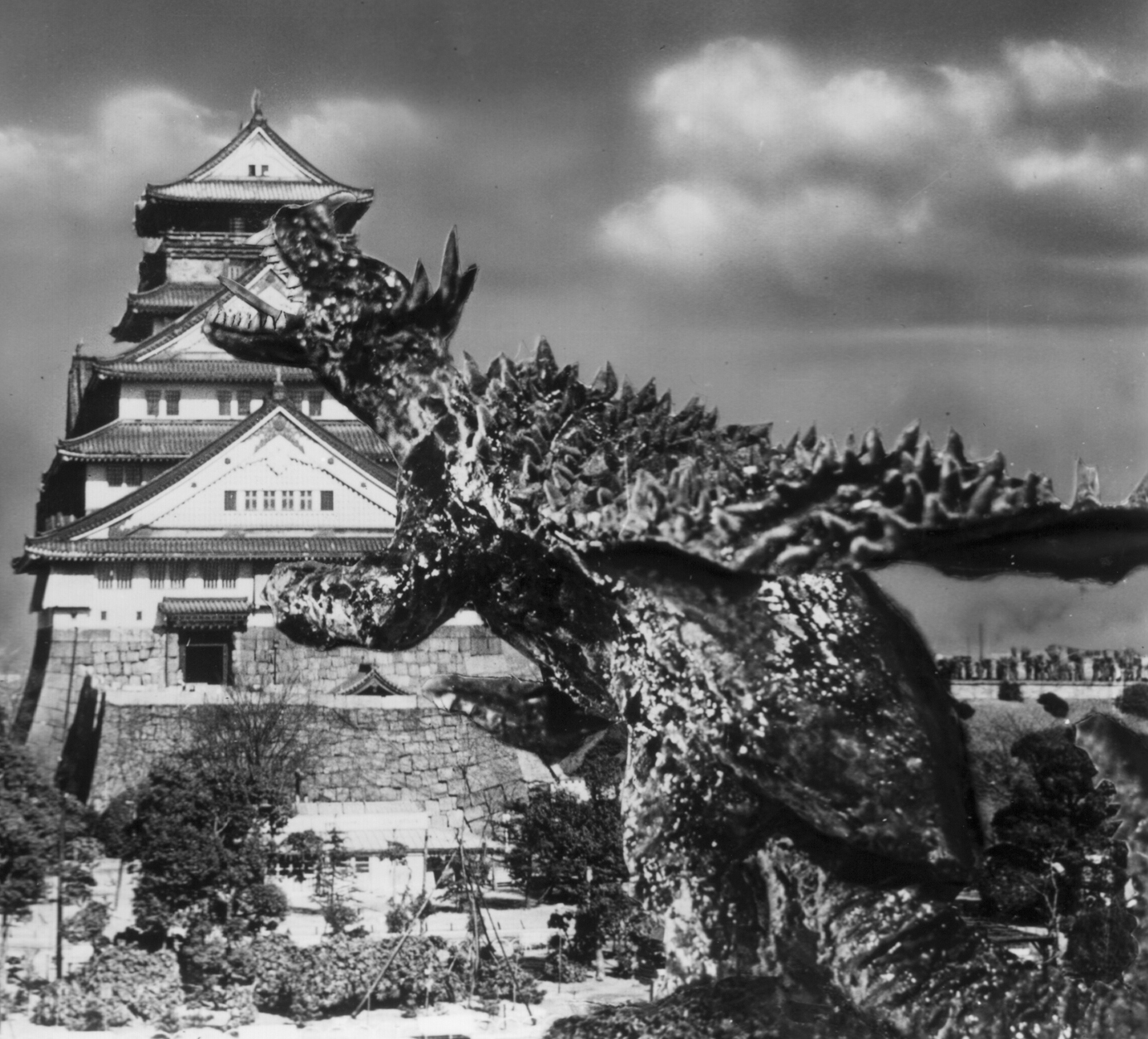 Anguirus, a detail from Japanese movie poster for 1955 Japanese film Godzilla Raids Again (ゴジラの逆襲, Gojira no Gyakushū)